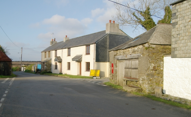 Longlands Cross, near Saltash. Longlands Cross, near Saltash. The left hand road leads to Elm Gate , the right hand one back to Saltash, whilst straight on goes to Trematon, and 'behind' you lies Trehan.